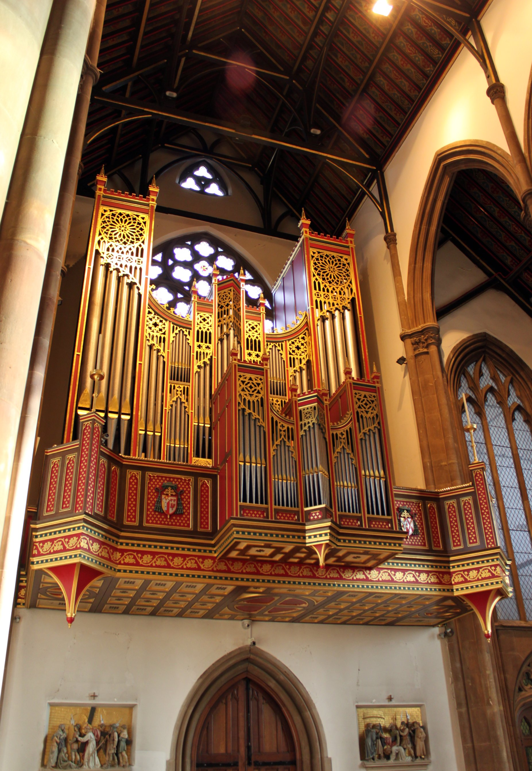 The organ in the Metropolitan Cathedral & Basilica of Saint Chad, Birmingham, by A.W.N. Pugin